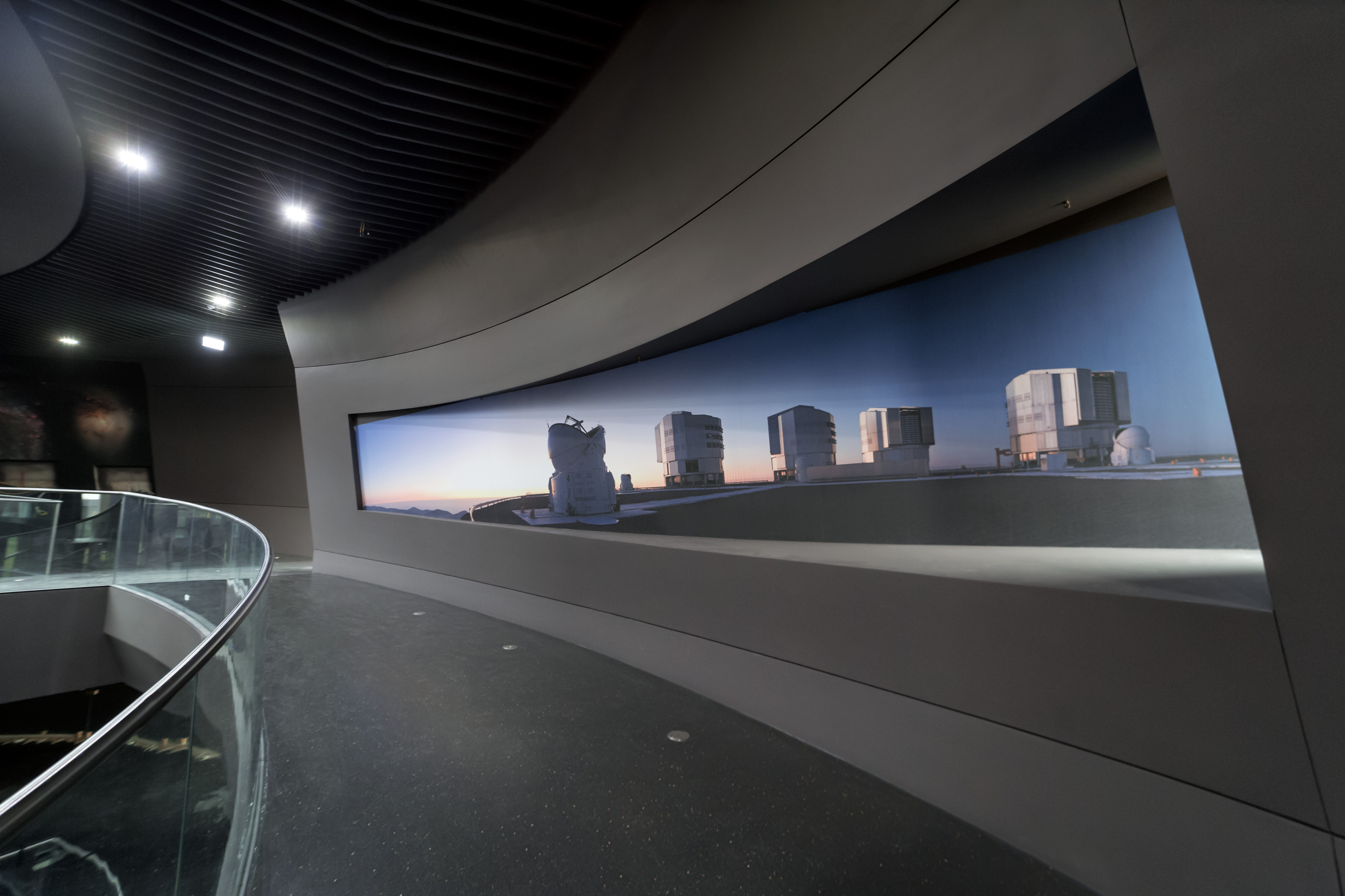 Here is a sneak-peek of how the ESO Supernova is progressing. This photo from 10 Nov 2017 reveals a new walkway in ESO's new Planetarium and Visitor Centre in Garching, and panoramic images of the Very Large Telescope (VLT) in Chile.